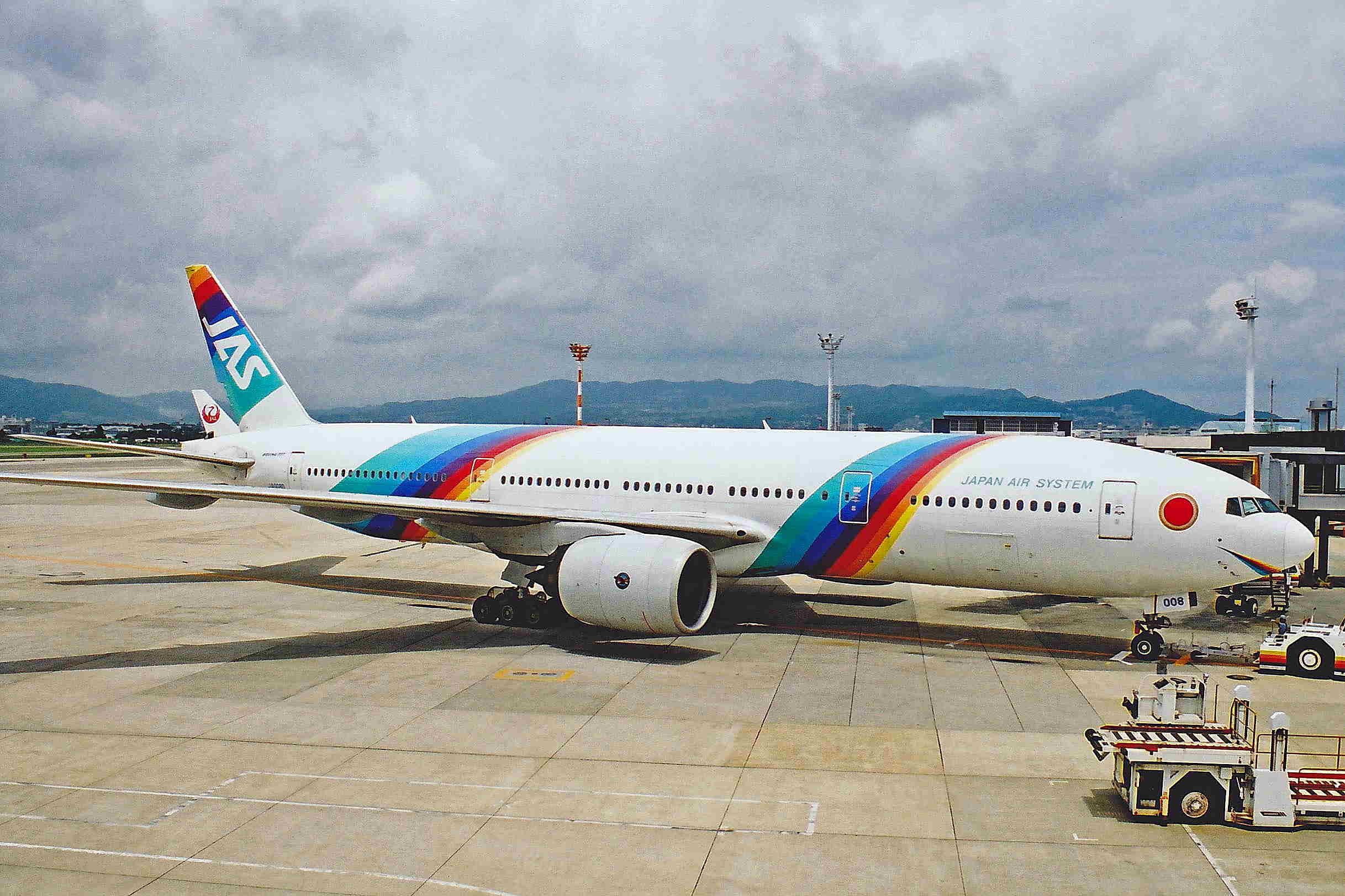 right side.